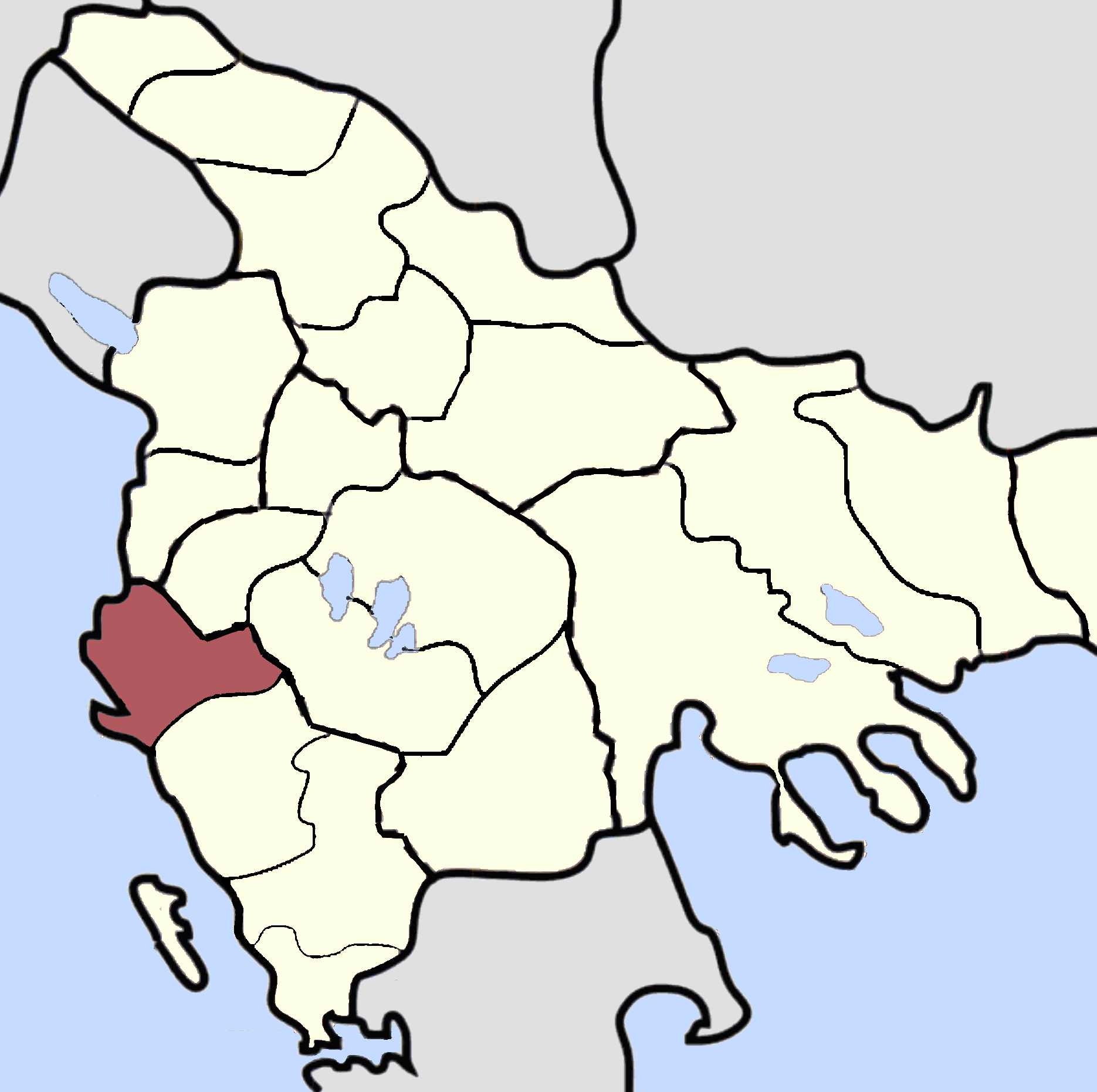 XY Sanjak, Ottoman Empire (late 19th century). Source: The Crescent and the Eagle- Ottoman Rule, Islam and the Albanians, 1874-1913 at Google Books By George Gawrych